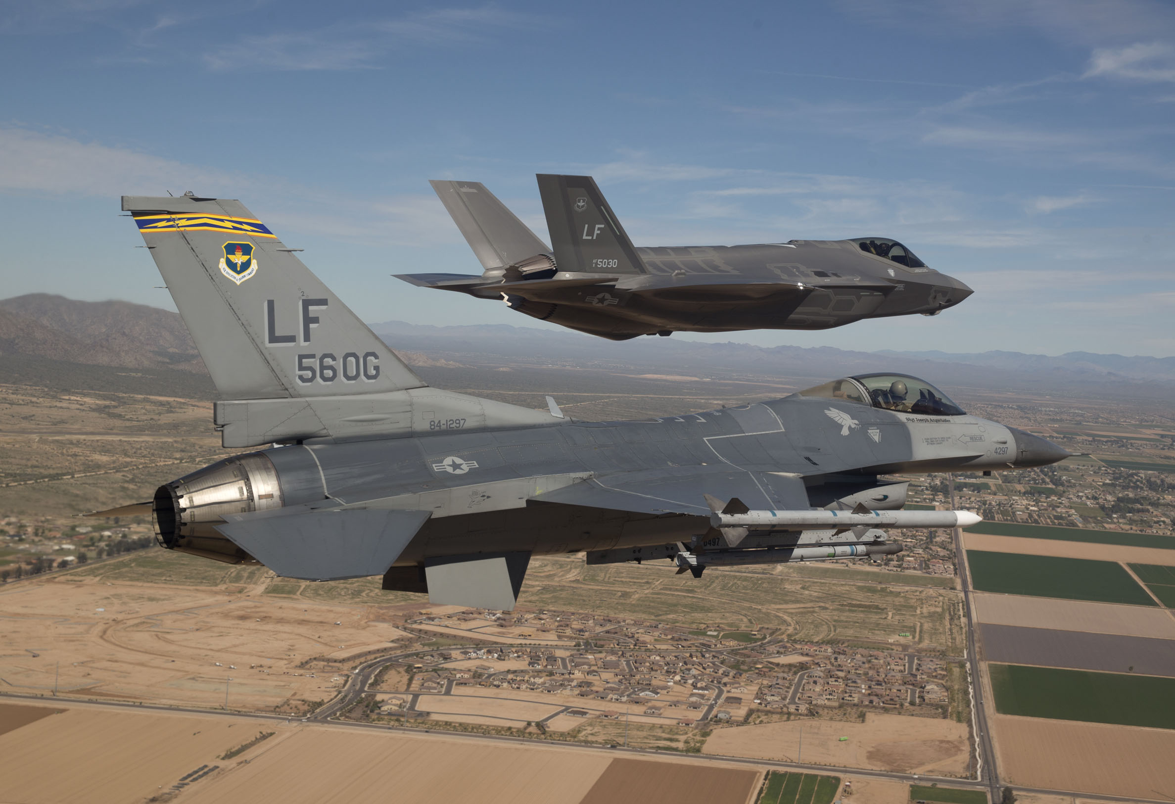 Maj. Justin Robinson flies the 56th Operations Group flagship F-16 Fighting Falcon March 10, 2014, as he escorts the first F-35 Lightning II to its new home at Luke Air Force Base, Ariz. The F-35 was flown by Col. Roderick Cregier, an F-35 test pilot stationed at Edwards AFB, Calif. Robinson is the 61st Fighter Squadron assistant director of operations. (U.S. Air Force photo by Jim Hazeltine/Released)